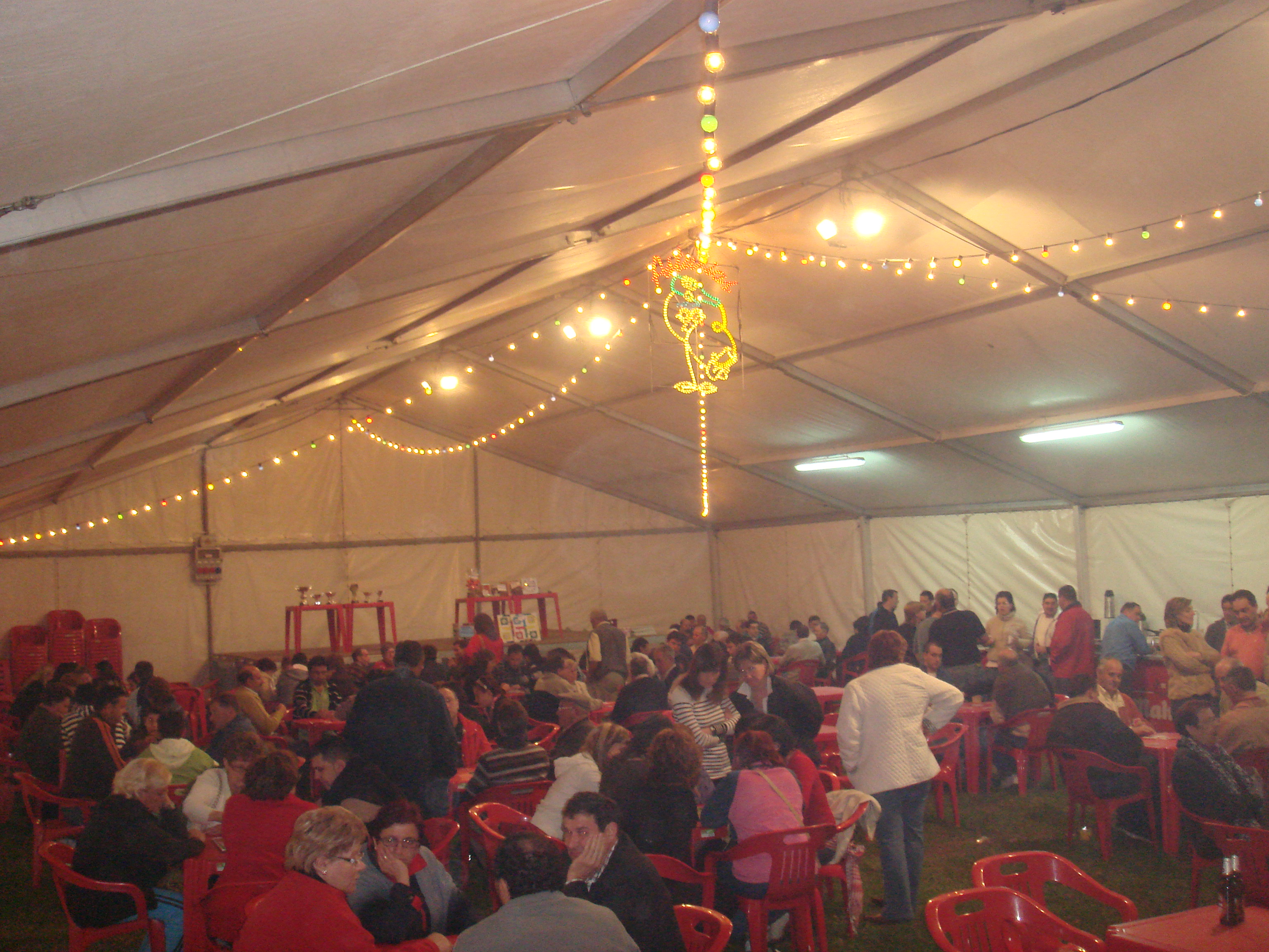 fiesta